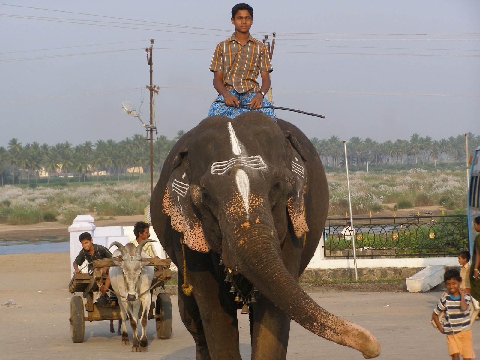 The mahout is a temple employee, in charge of maintaining the elephant and taking care of its daily duties, including shower, decoration and being available for rituals.